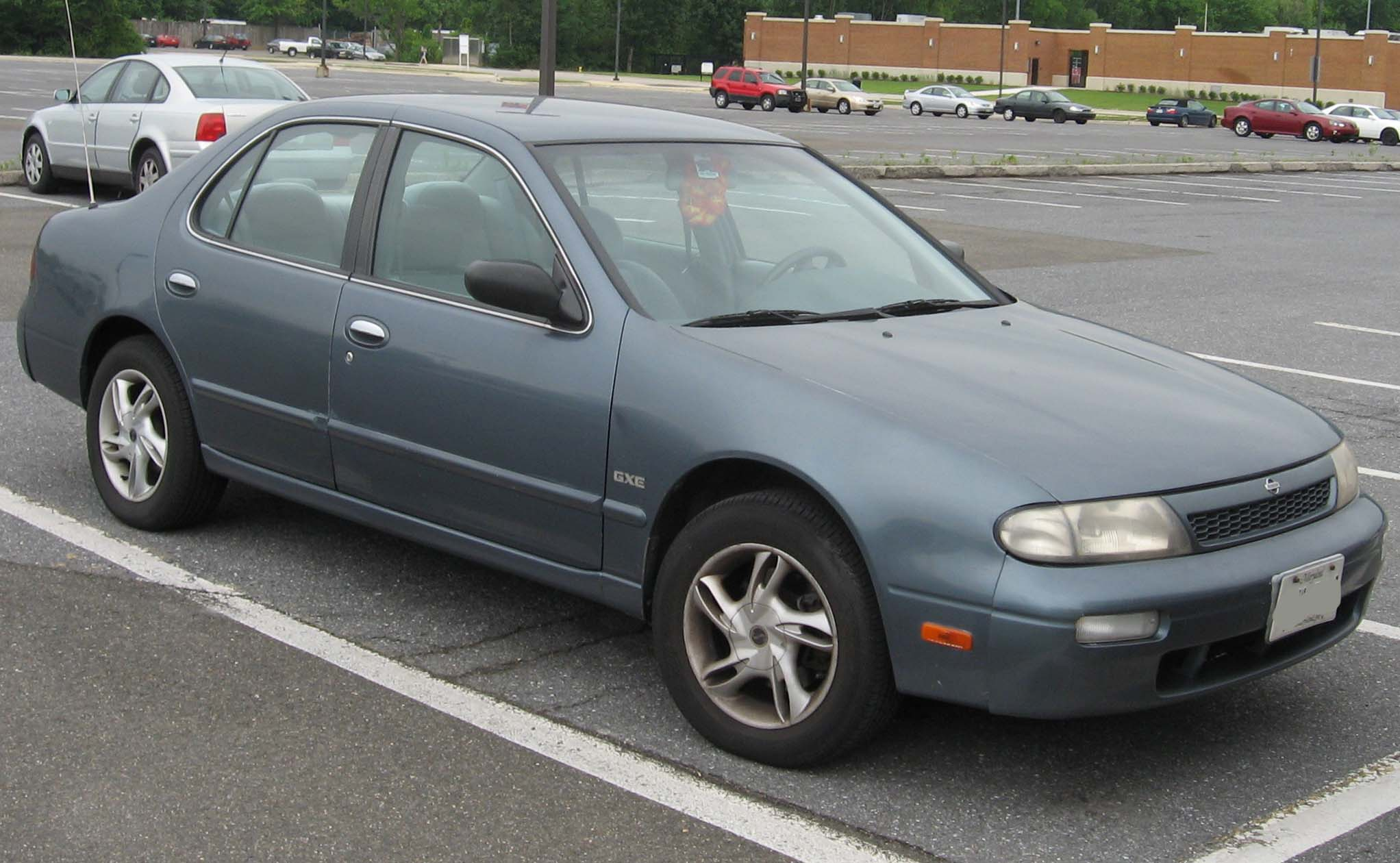 1993-1994 Nissan Altima photographed in USA.